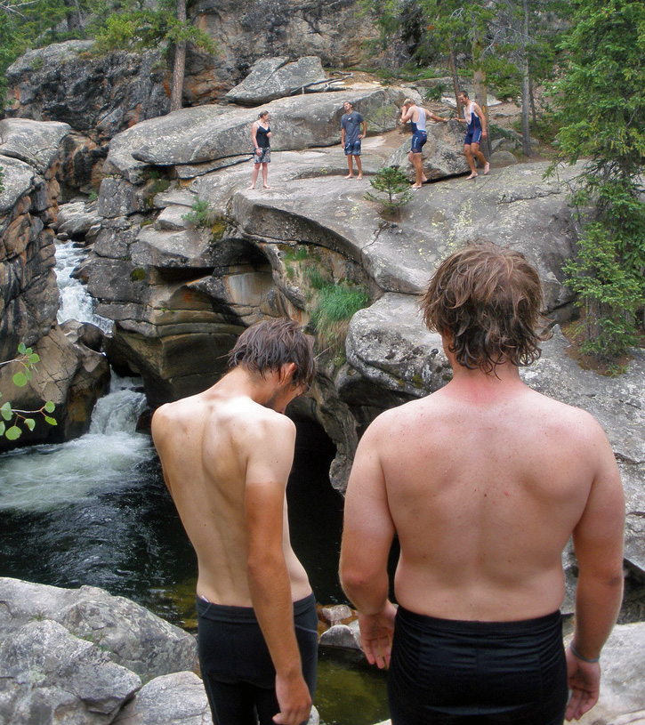 Swimmers at Devil's Punchbowl near Aspen, CO, USA, along Roaring Fork River below Independence Pass